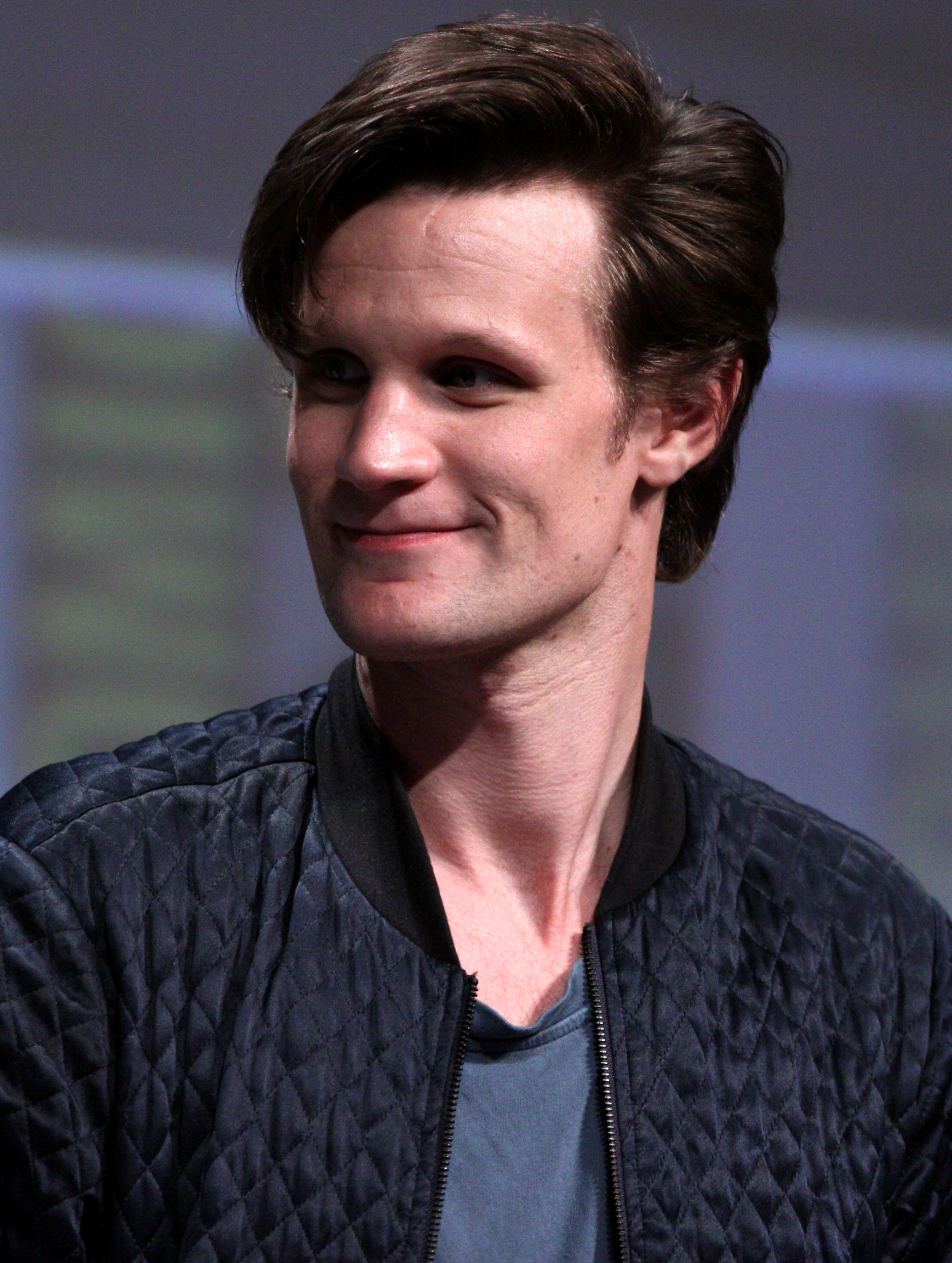 Matt Smith speaking at the 2012 San Diego Comic-Con International in San Diego, California.